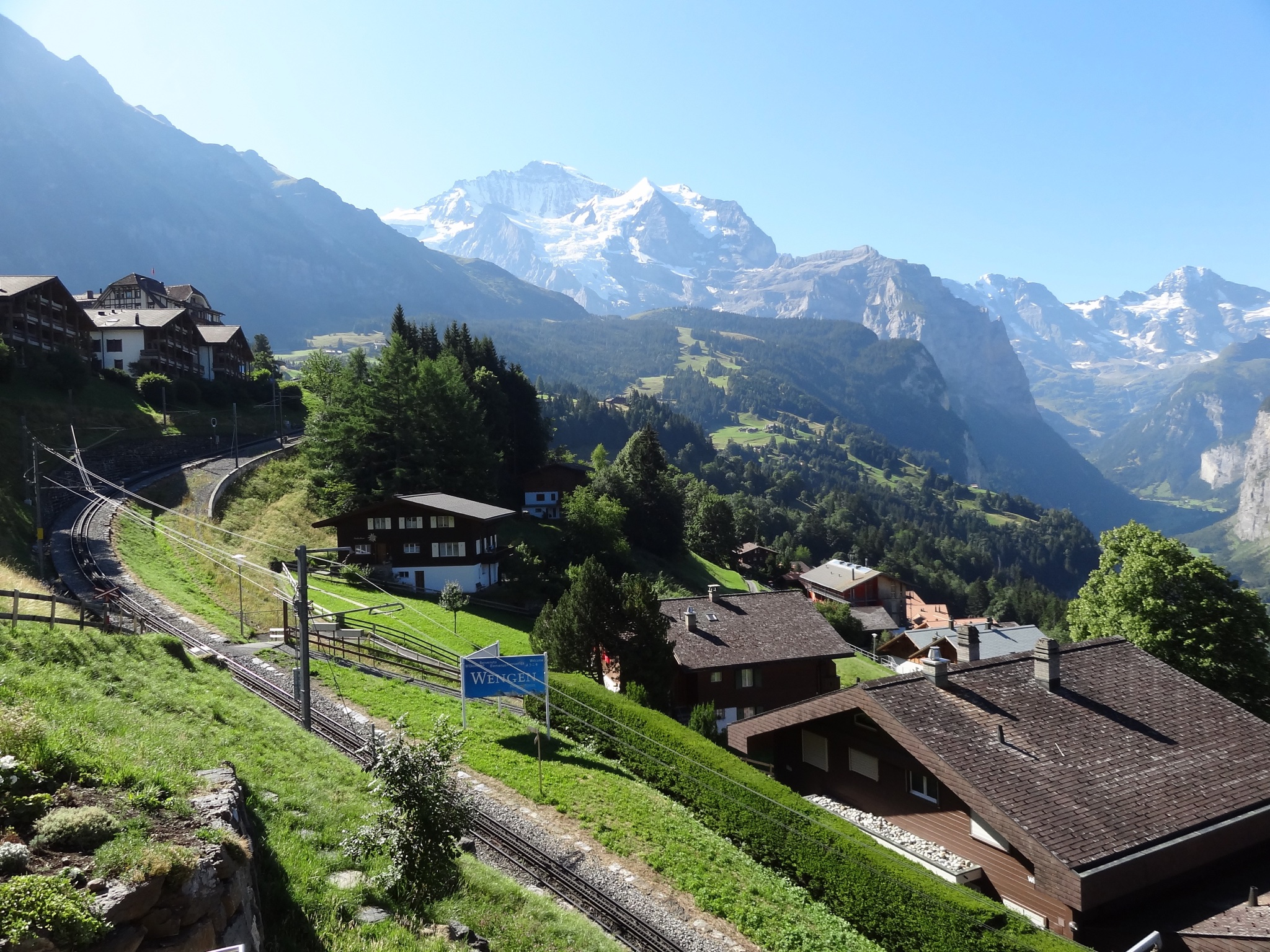 A view of the Swiss town of Wengen, showing the sole railway track leading into the town, some houses and the Jungfrau mountain.